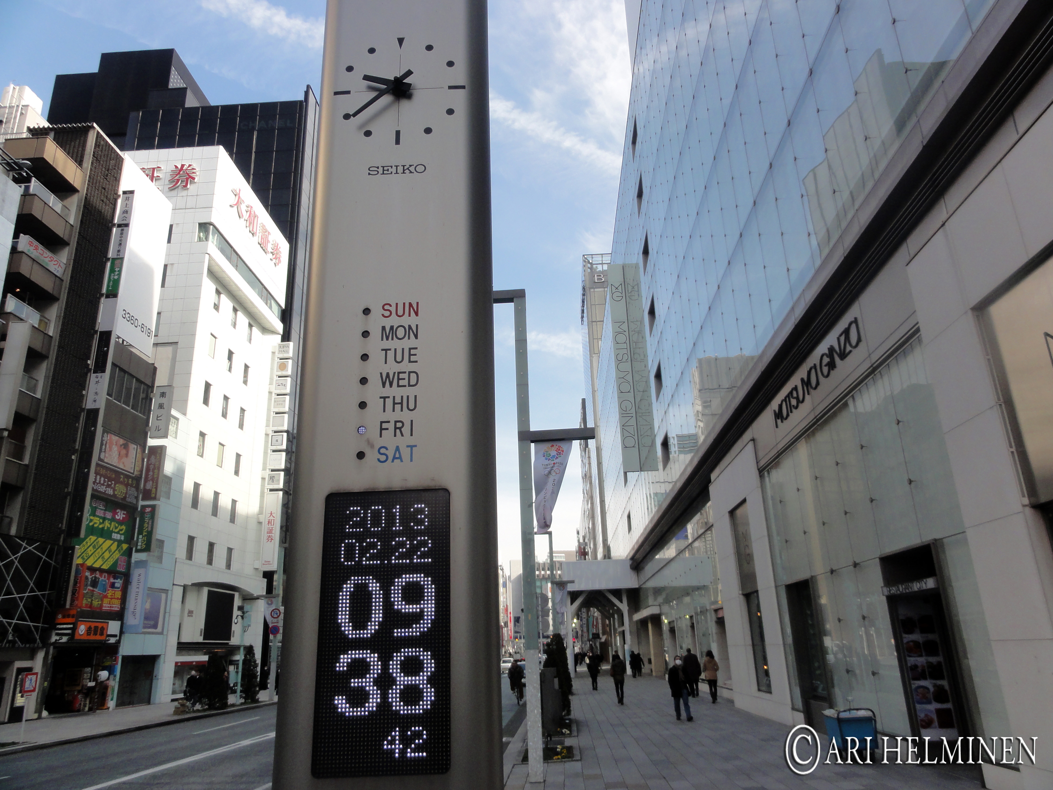 Read more about this day and my life in Japan at (my website) この日と僕の日本での生活をウェブサイトでもっと読んでね☆